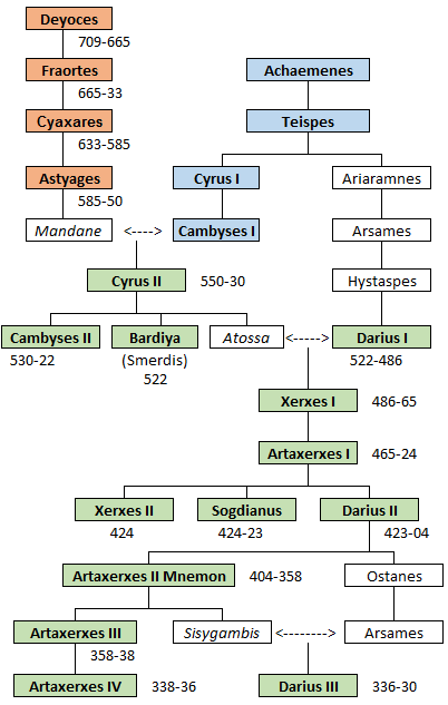 Achaemenid Family Tree (This is a translation to English of "Aquemenidas.png")